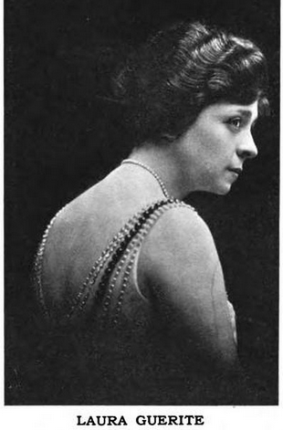 Laura Guerite, from a 1916 publication. A white woman in a beaded gown, looks over her right shoulder, showing profile.